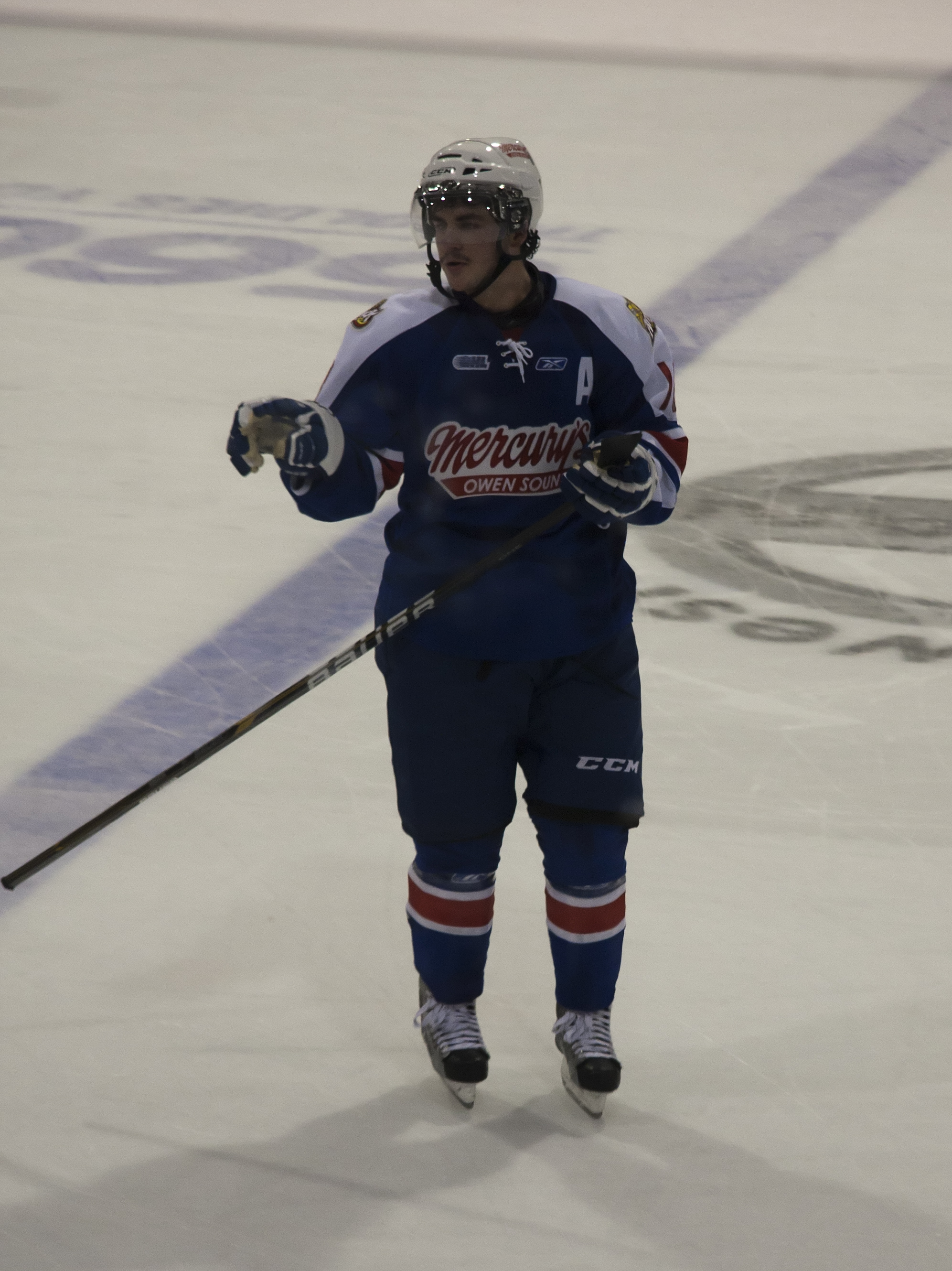 Owen Sound Attack player Joey Hishon wearing their third jersey in a game against the Sarnia Sting. The jersey honours the defunct Owen Sound Mercury, who won the Allen Cup in 1951.